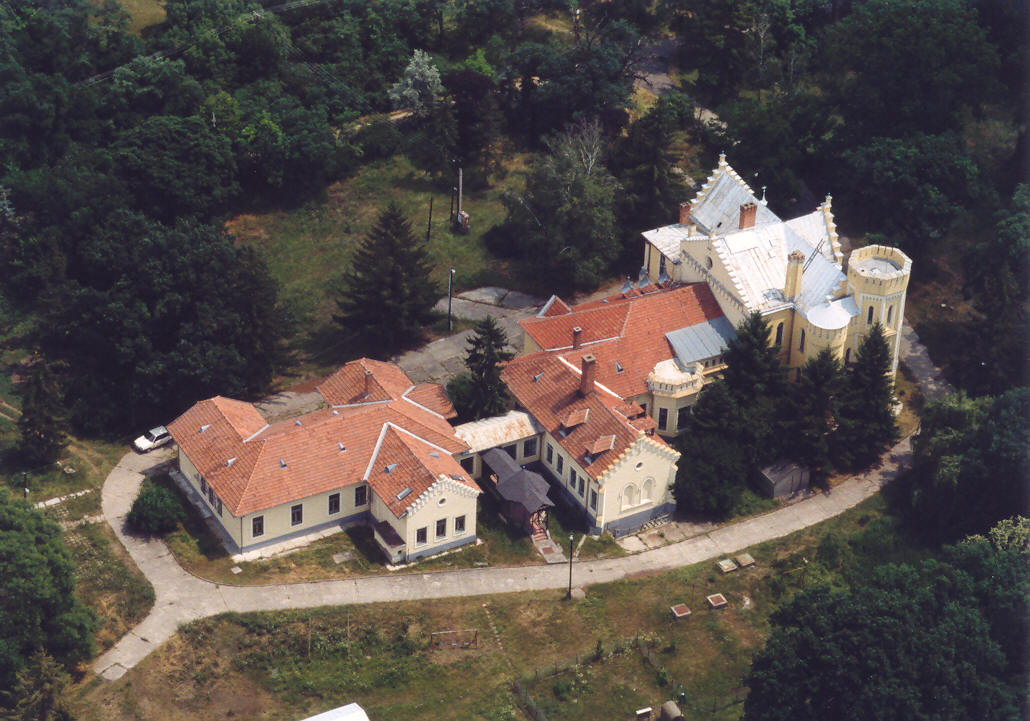 Palace - Bélmegyer - Hungary - Europe (Wenckheim Mansion)